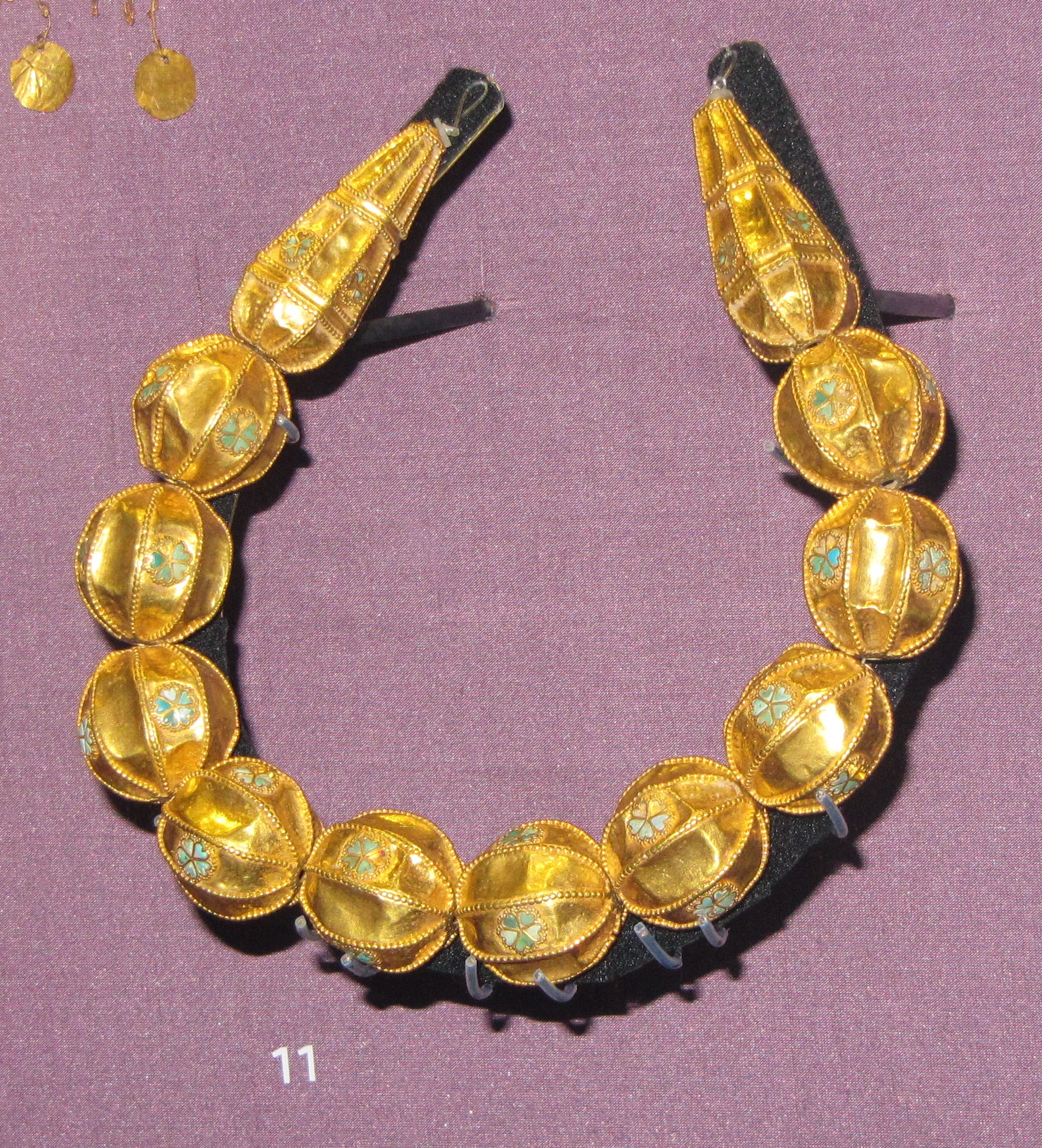 Necklace, Tillya Tepe, Tomb VI, 1st century A.D., Gold, organic material (wood?), National Museum of Afghanistan, Personal photograph 2011, British Museum.